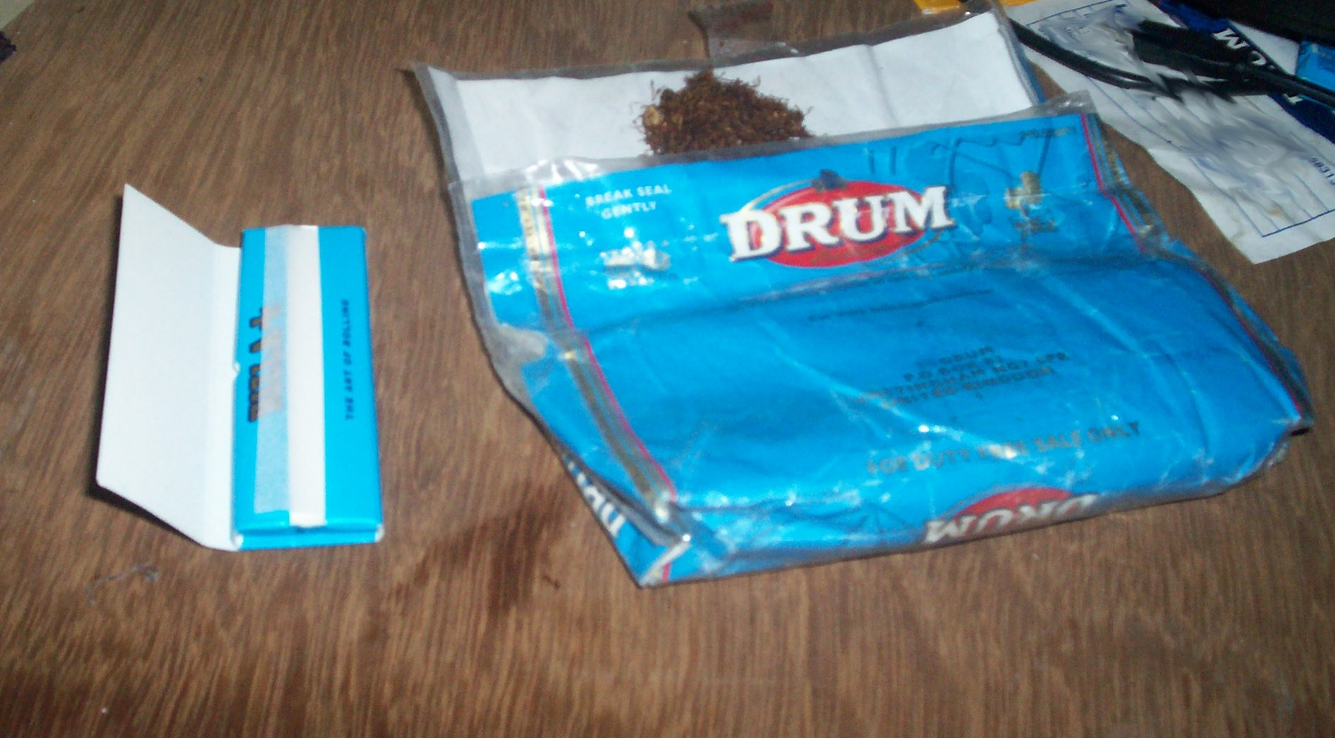 Picture copied from local Wikipedia (en) to Commons